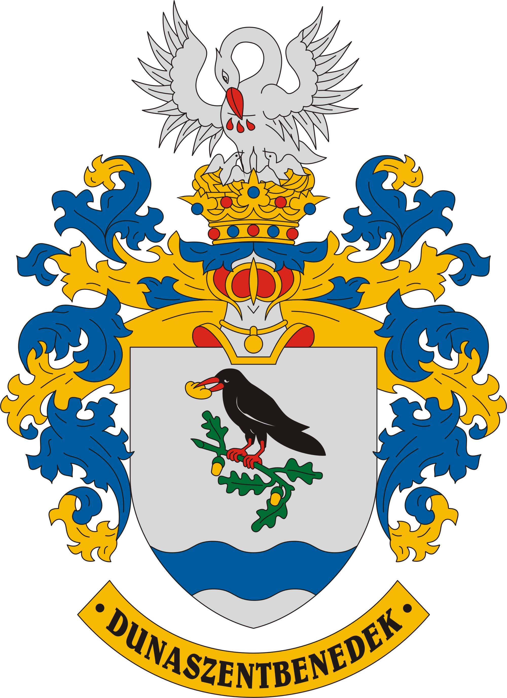 Coat of arms of Dunaszentbenedek, Hungary